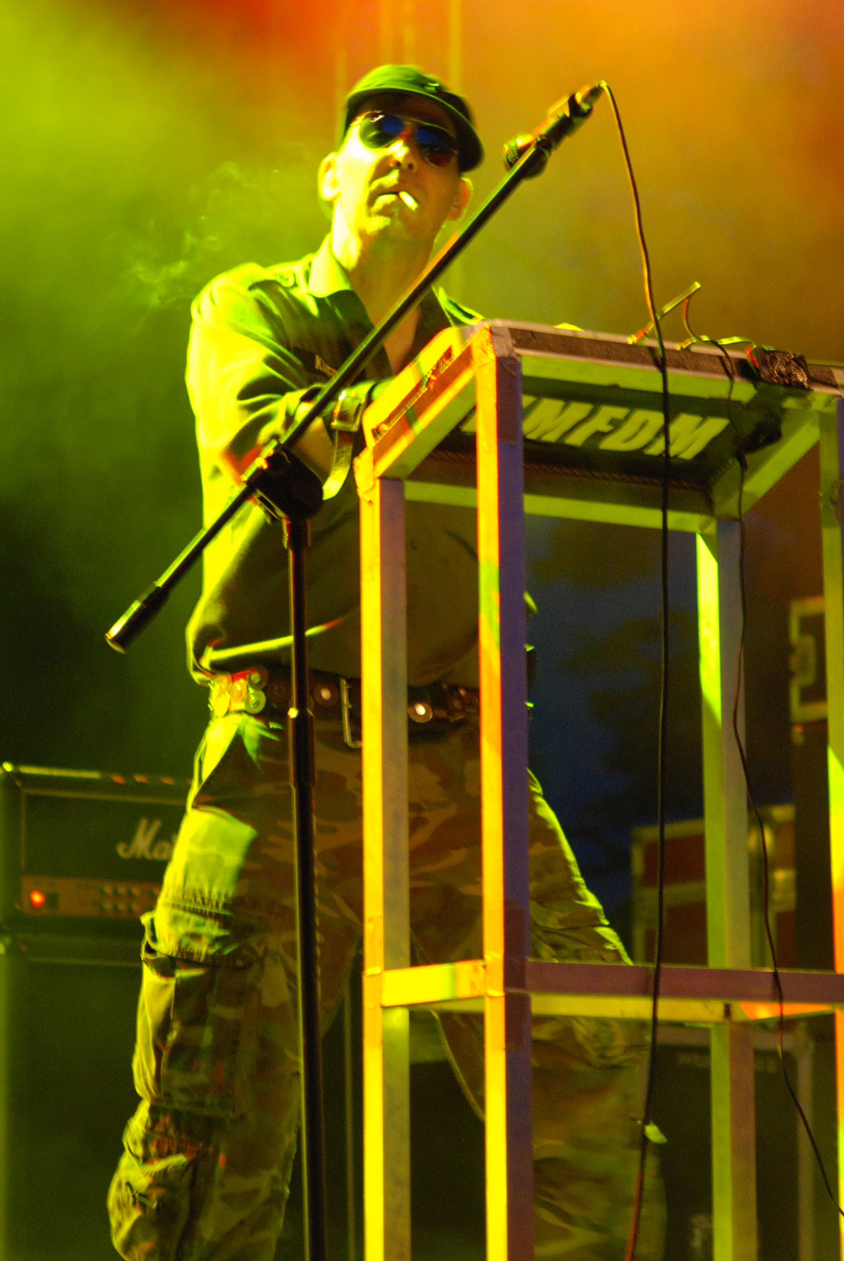 This photo was made in cooperation with CASTLE PARTY PRODUCTIONS in Bolków (webpage)